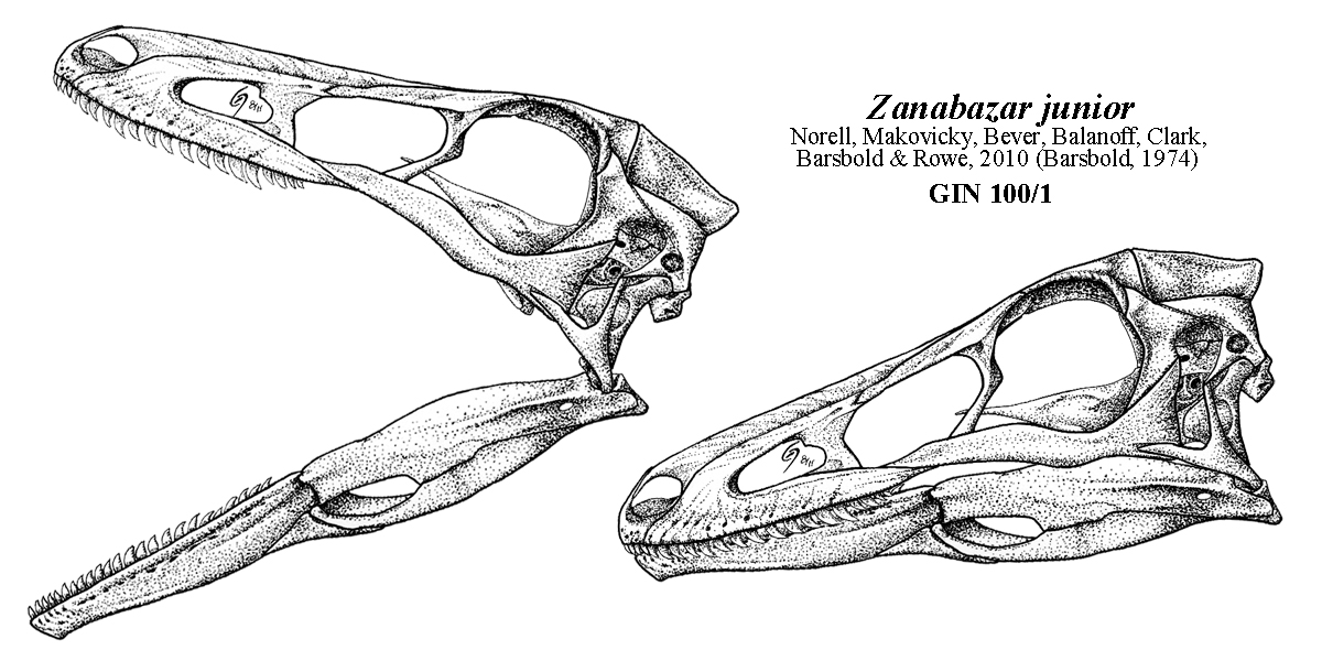 Skeletal reconstruction of Zanabazar junior